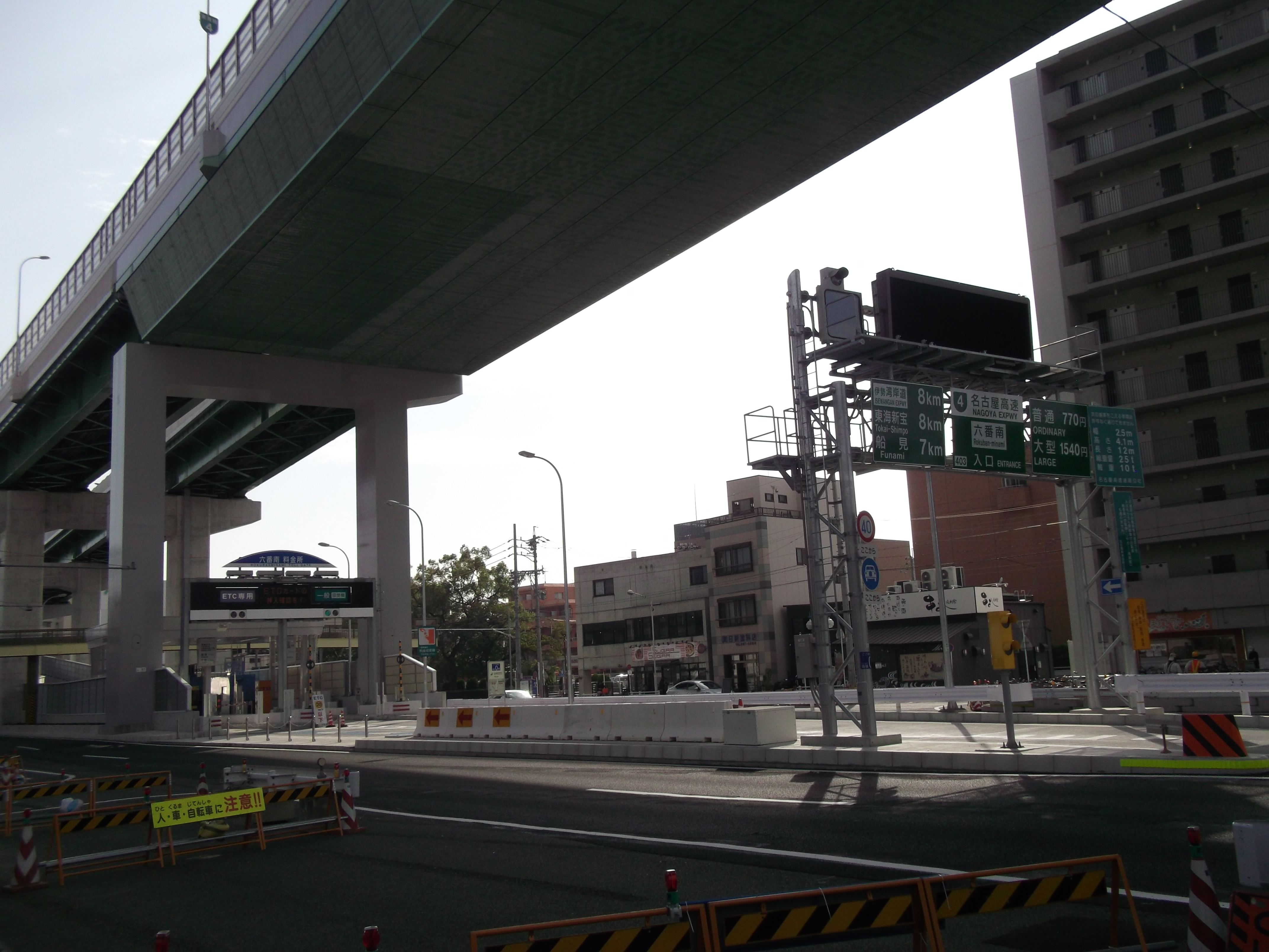 Rokuban-minami Interchange on the Nagoya Expressway Route 4 in Atsuta-ku, Nagoya City